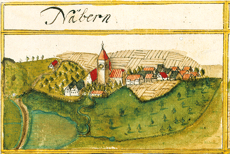 View of Nabern, Kirchheim unter Teck, from the forest register books created by Andreas Kieser